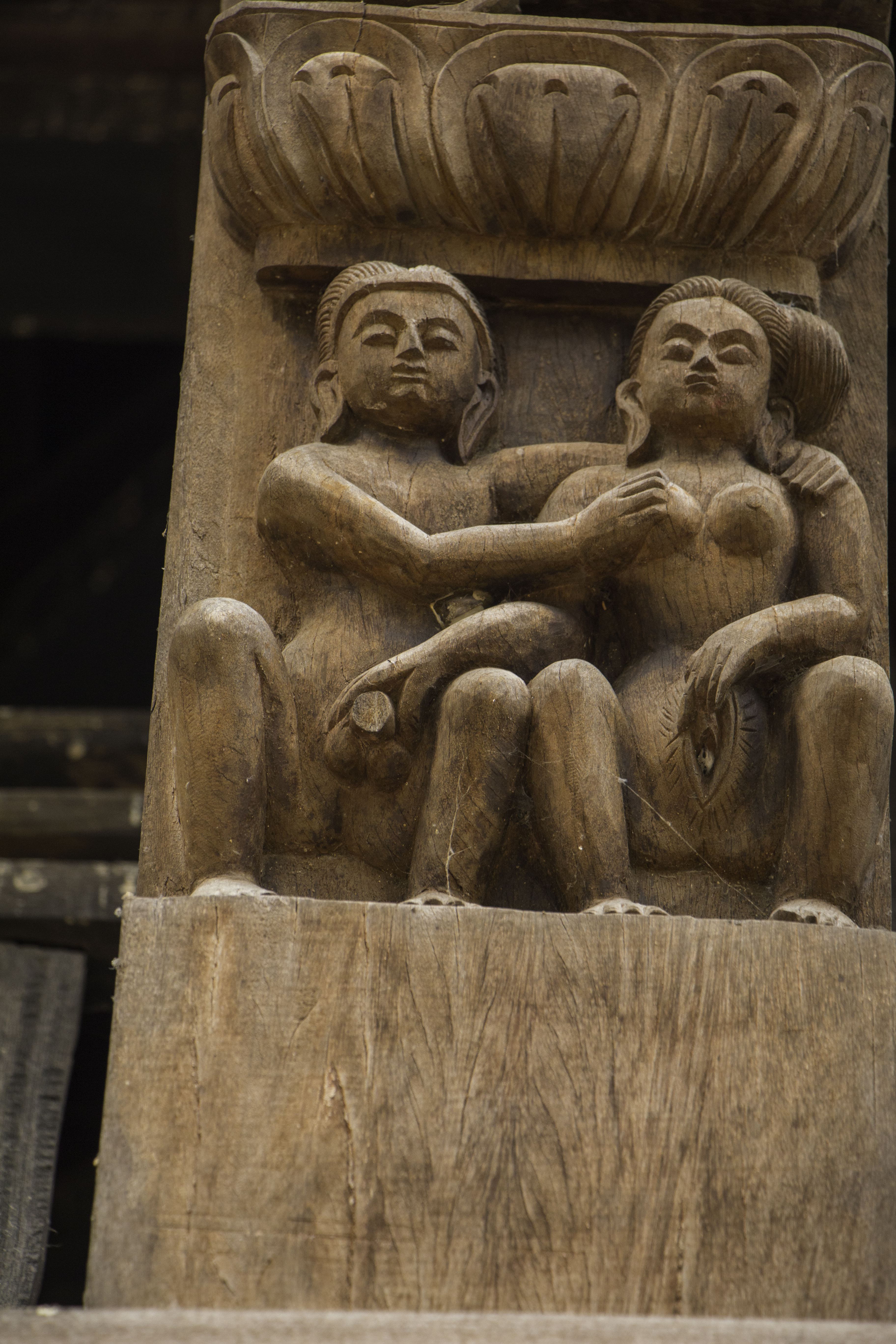 An ancient sculpture sexual behavior in the wall of Umamaheshwor Temple at Kritipur.